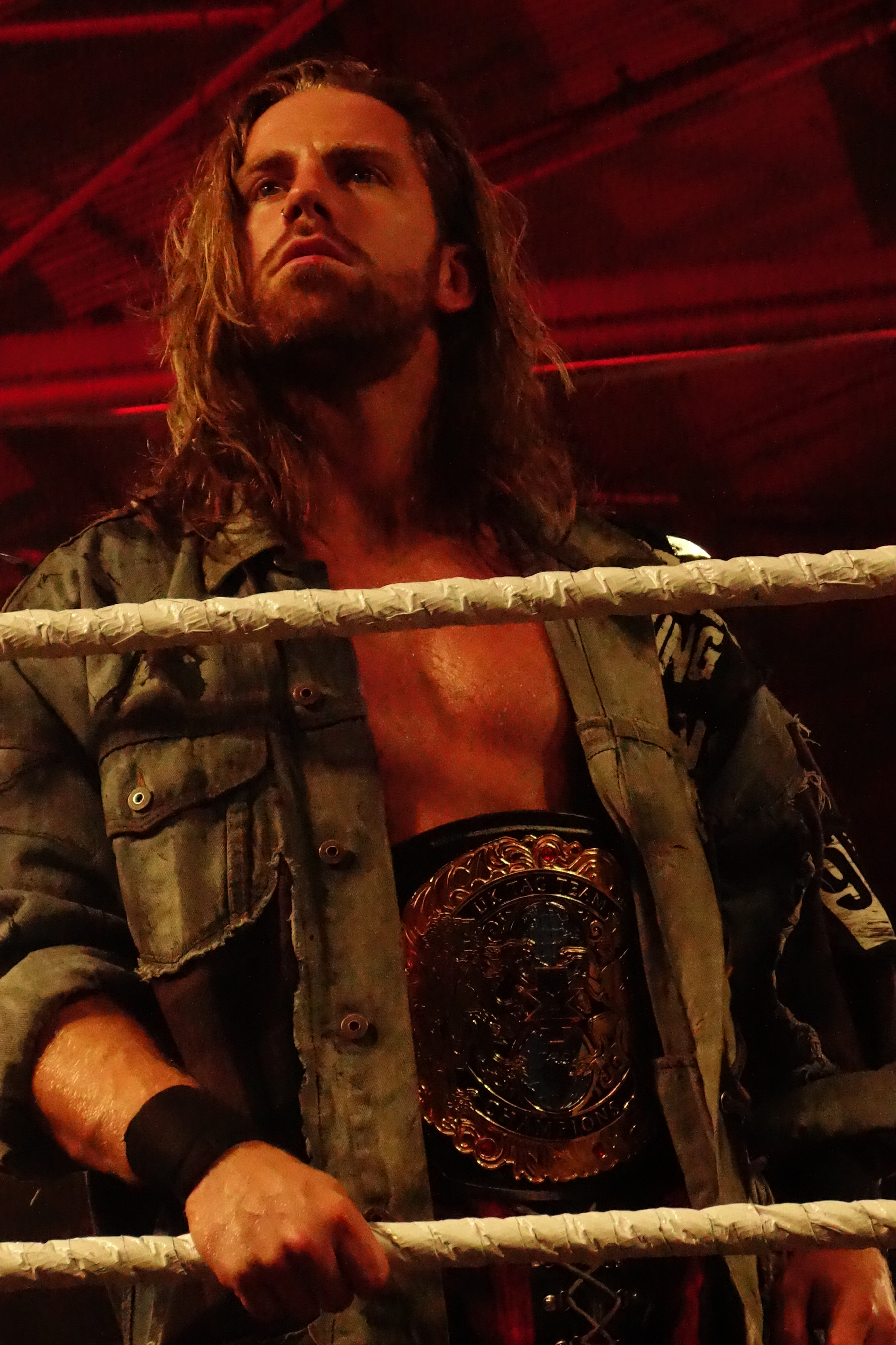 Professional wrestler, James Drake on April 6, 2019 at a WWE event.